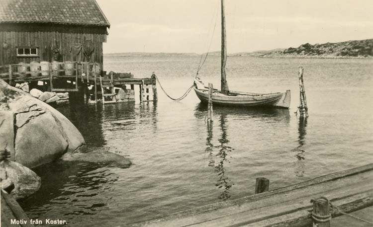 Sydkoster, Koster Islands, Sweden.